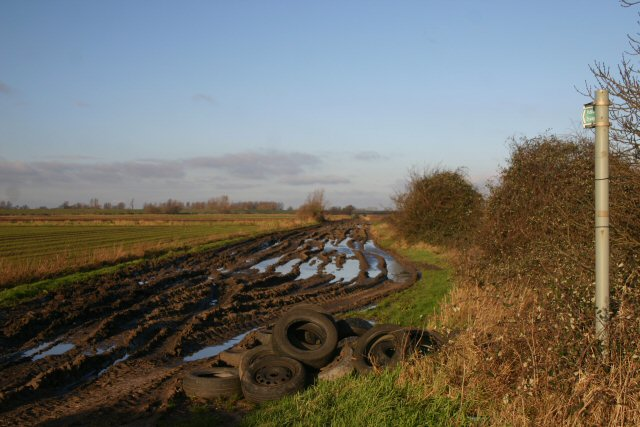 Byway to Byall Fen Looking north from Witcham Bridge Grove.